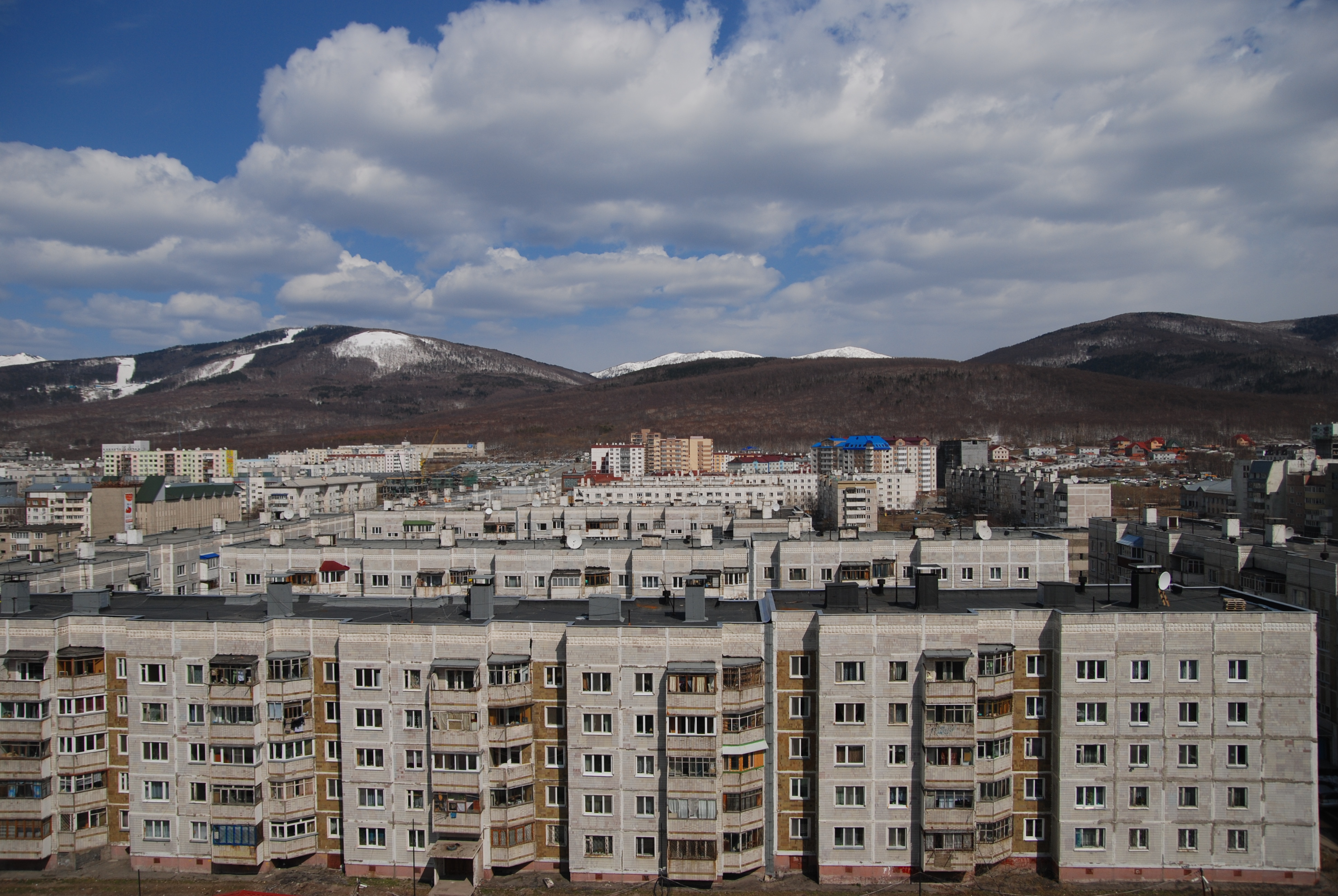 Panoramic view of Yuzhno-Sakhalinsk (Sakhalin island, Russia)) Location: Yuzhno-Sakhalinsk